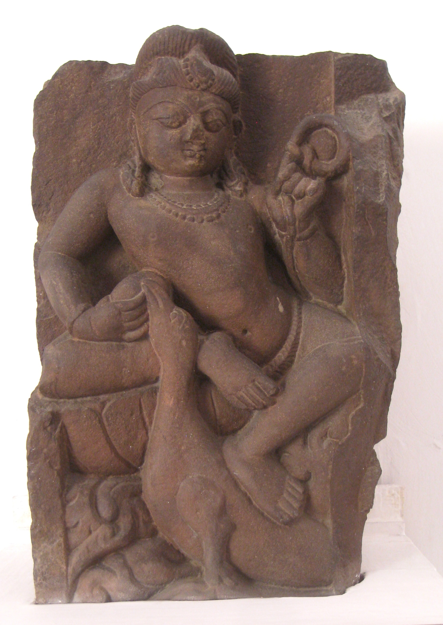 Karttikeya, Gupta, 6th century AD, Madhya Pradesh. Stone sculpture in National Museum, New Delhi, India.